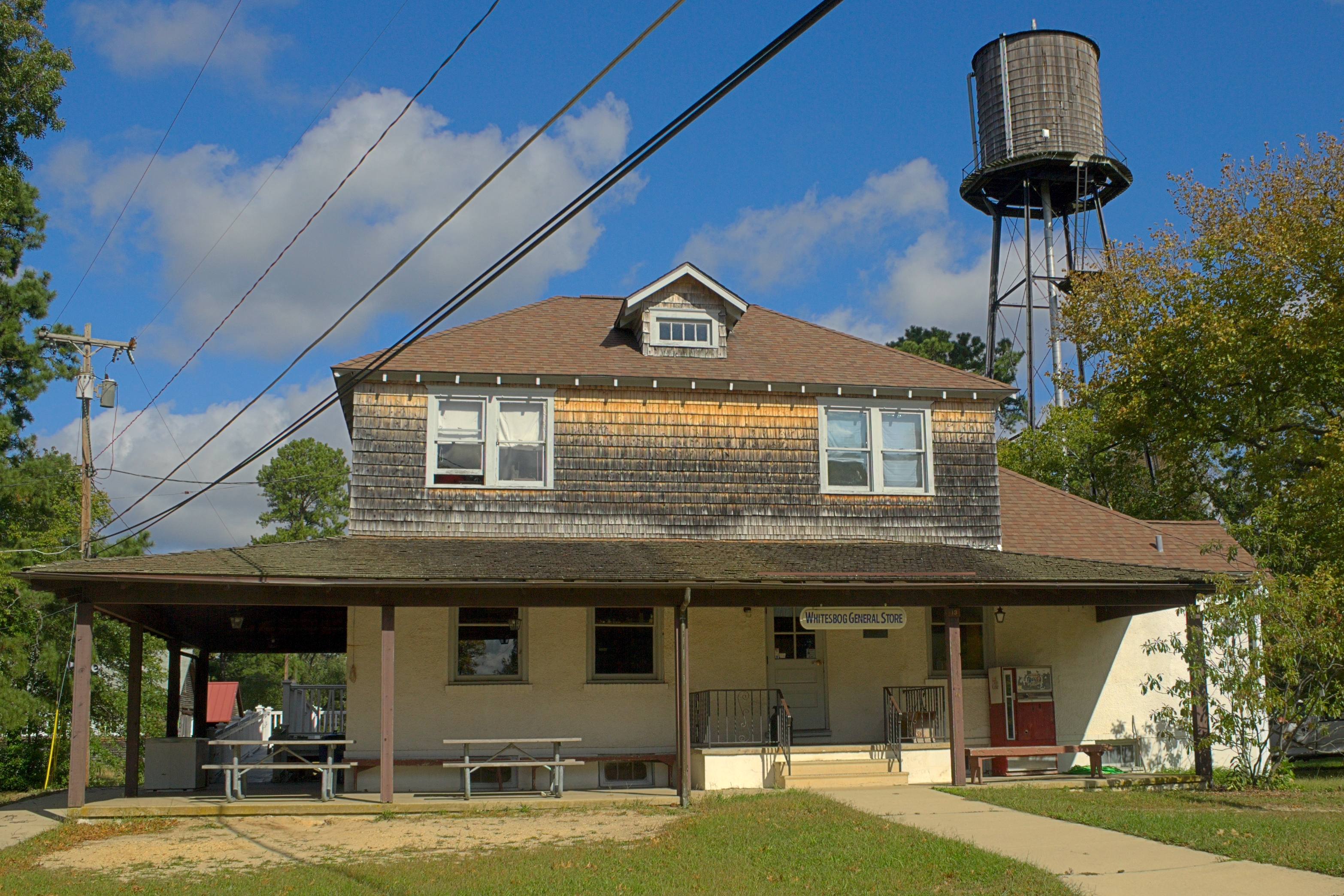 Whitesbog General Store with water tower in the background